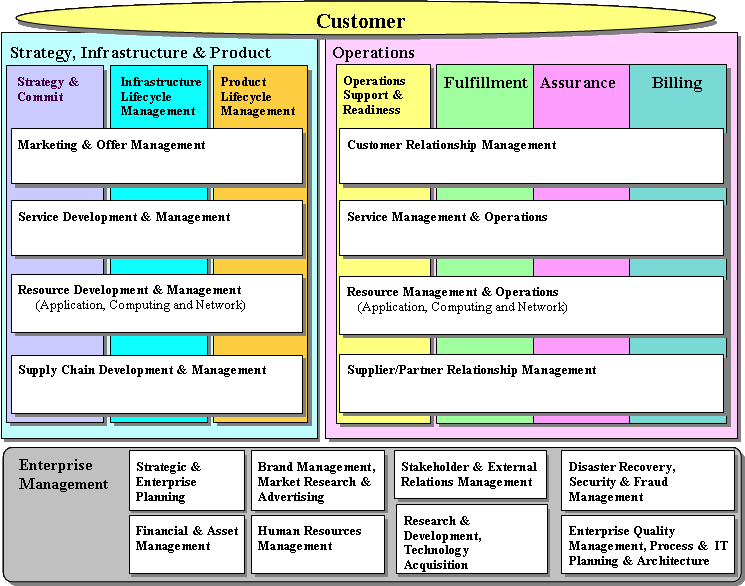 A diagram of the enhanced Telecom Operations Map - eTOM - from the TMF process model.